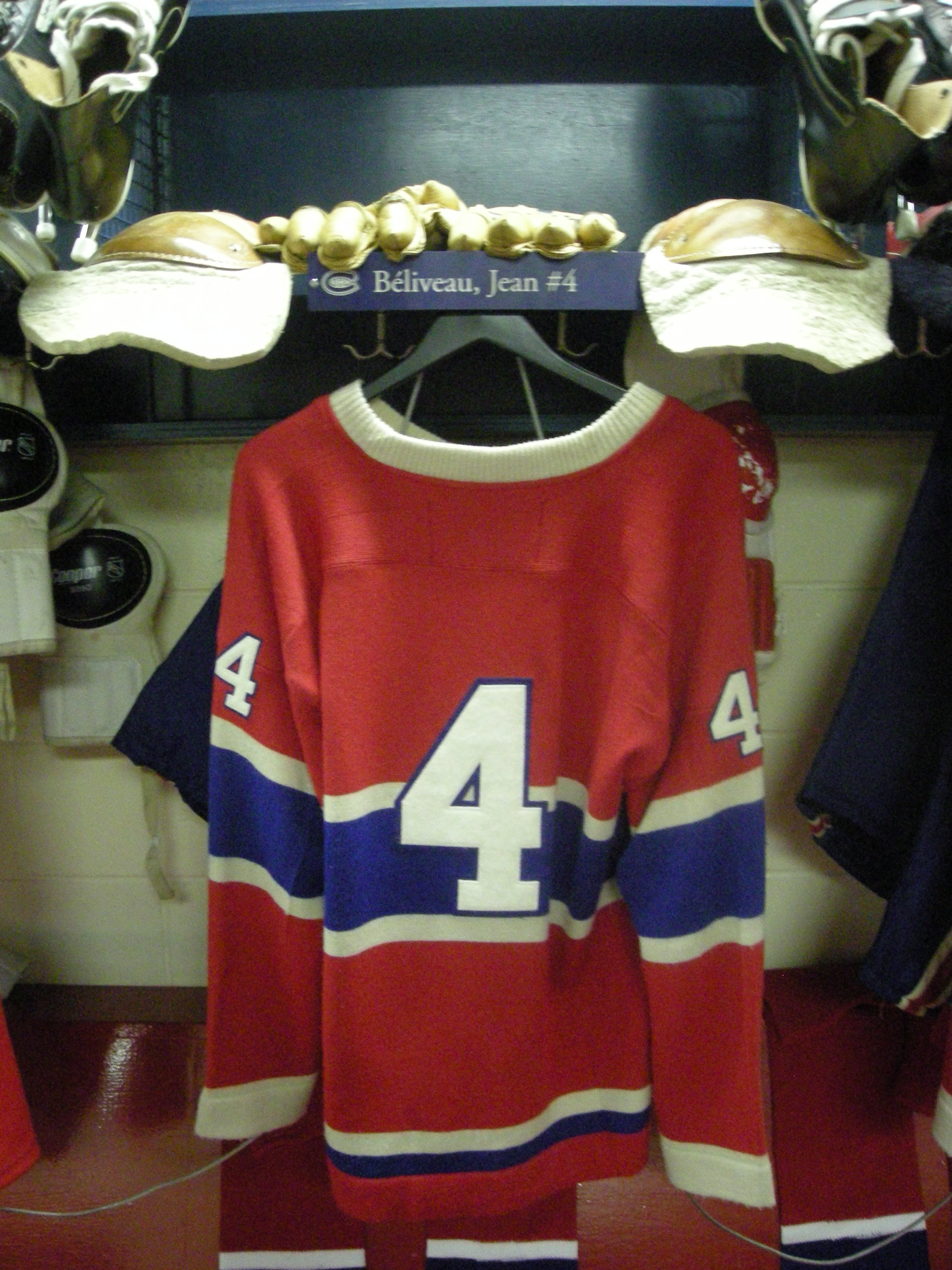 Jean Béliveau's jersey in the replica of the Montreal Canadiens dressing room at the Hockey Hall of Fame in Toronto, Ontario (Canada).